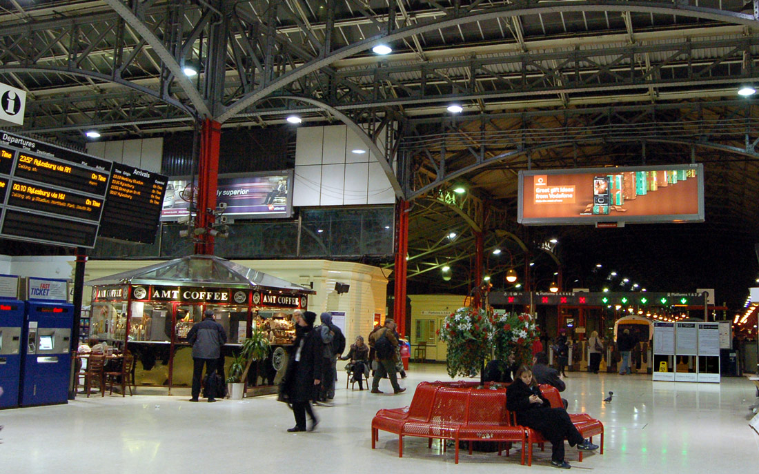 Night time view of the main concourse at Marylebone railway station, London